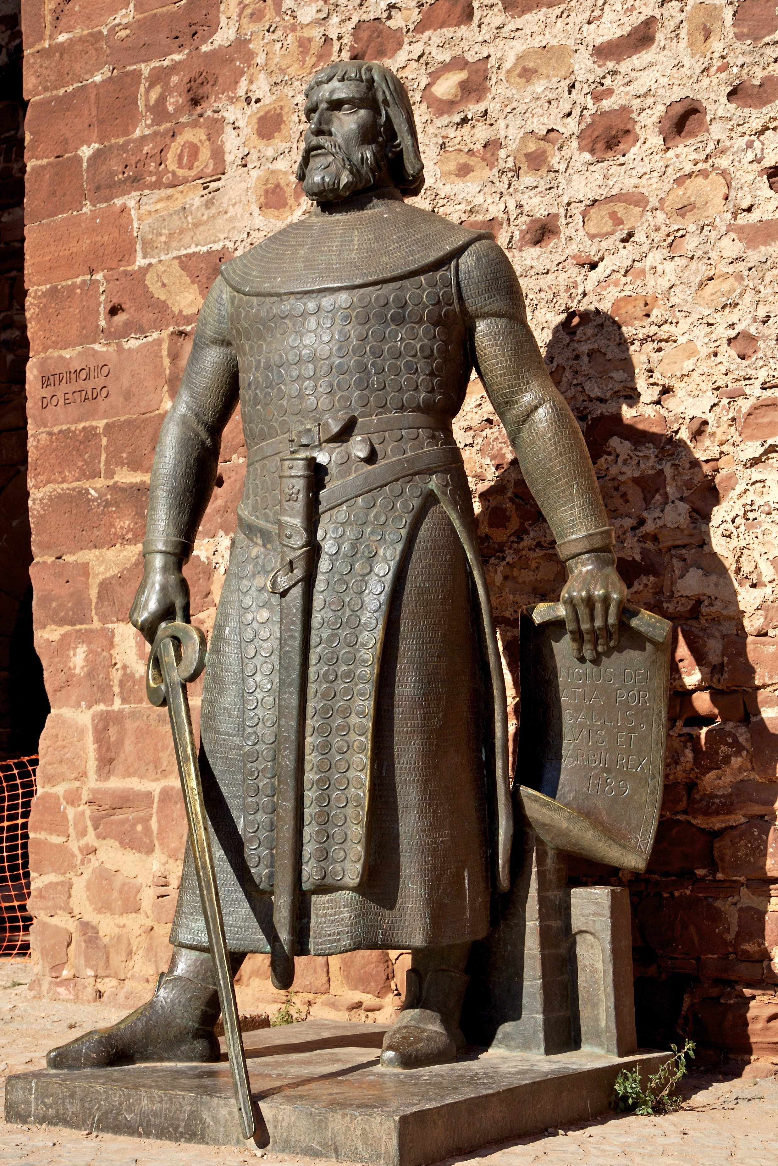 Sancho I, King of Portugal, by Silves Castle